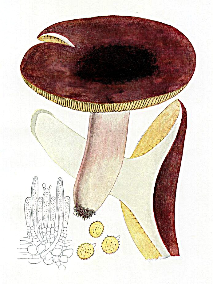 Copyright © 2001-2012 Gruppo Micologico «G. Bresadola» online (This site is hosted by the server of the Science Museum.) (Russula alutacea f. vinosobrunnea Bres. 1884 is a synonym of Russula vinosobrunnea (Bresadola) Romagnesi 1967 )